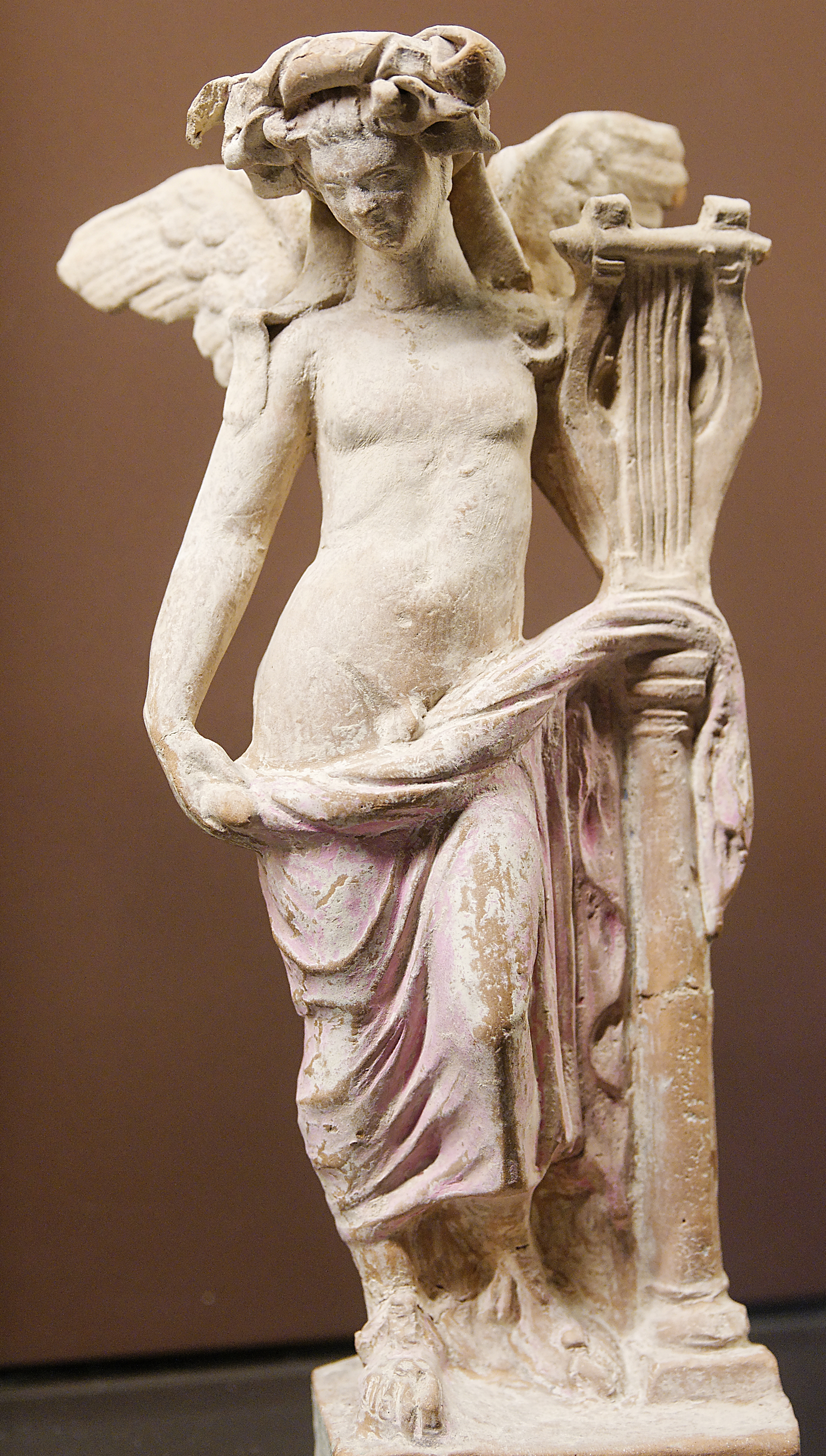 Eros kitharoidos (lyre-player) wearing an ivy crown with a twined lemniscus (ribbon).